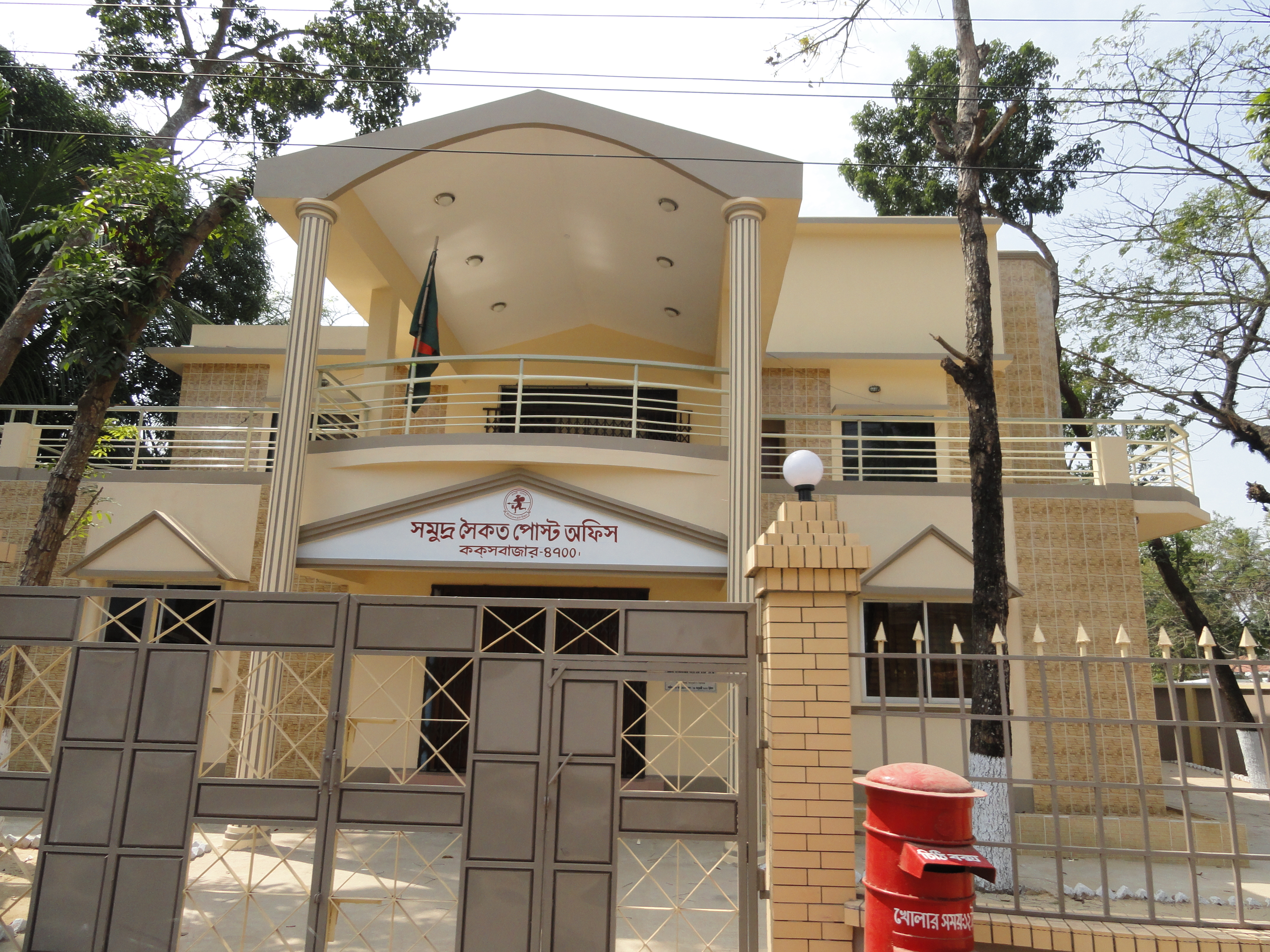 COX BAZAR POST OFFICE